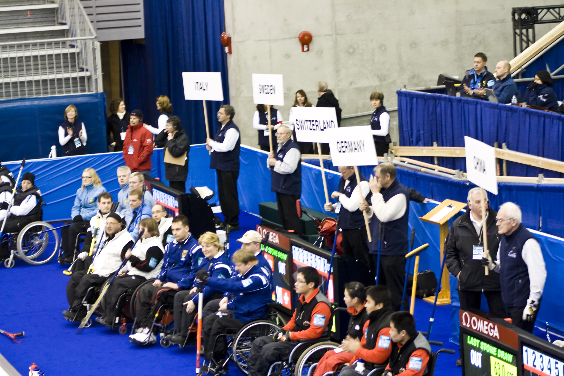 Teams Sweden, Switzerland, Germany and China